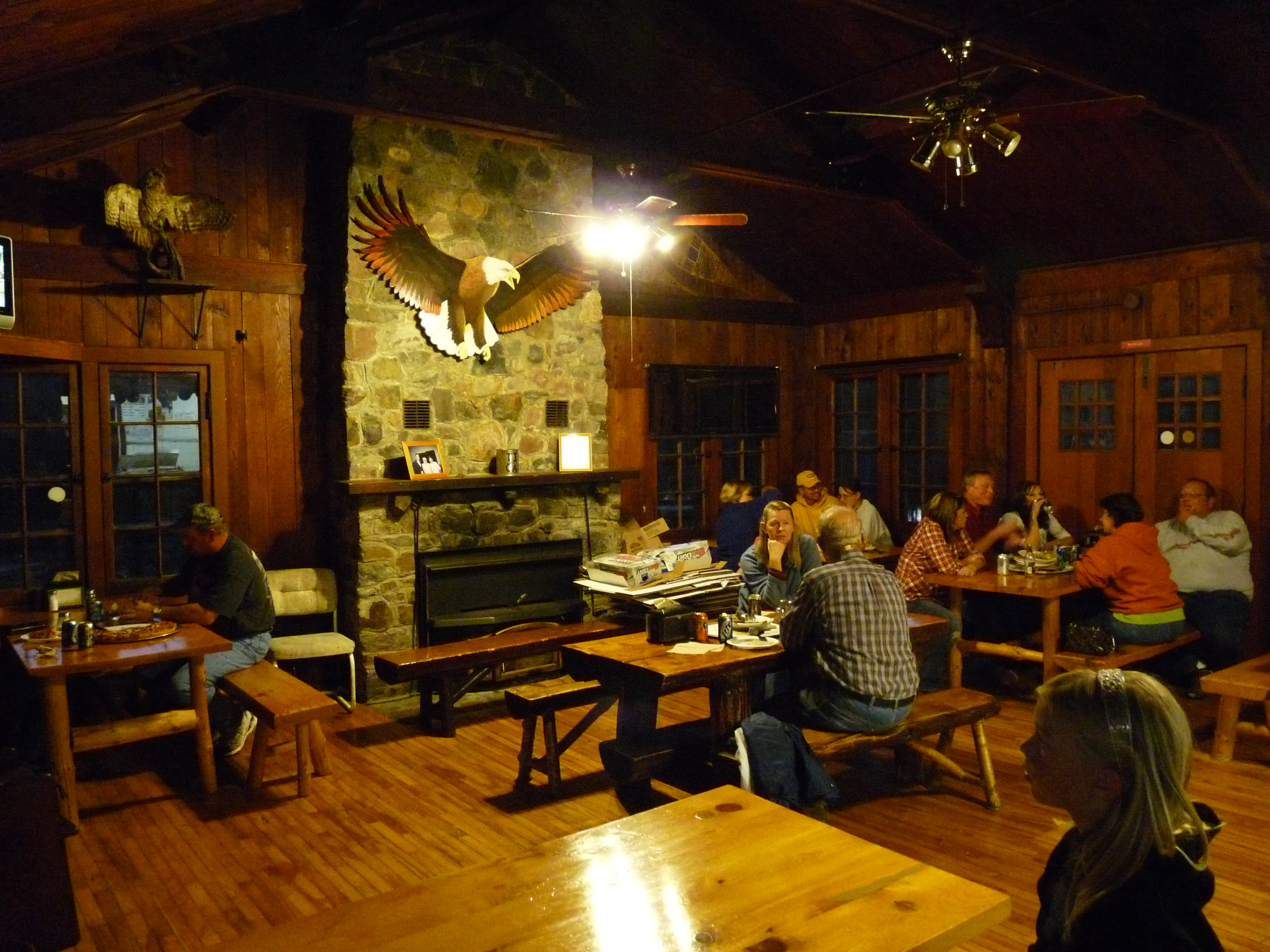 The Mondeaux Lodge in north-central Wisconsin was built around 1937 by the Civilian Conservation Corps, WPA, and Forest Service as the center of a recreation area in the Chequamegon National Forest. It has been listed on the National Register of Historic Places since 1984.